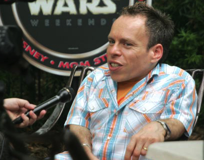 Warwick Davis is interviewed by media in attendance (Disneyland, Florida, USA). (Photo by Ron Riccio) For video coverage of the fourth and final Disney Weekend of 2007, click here.